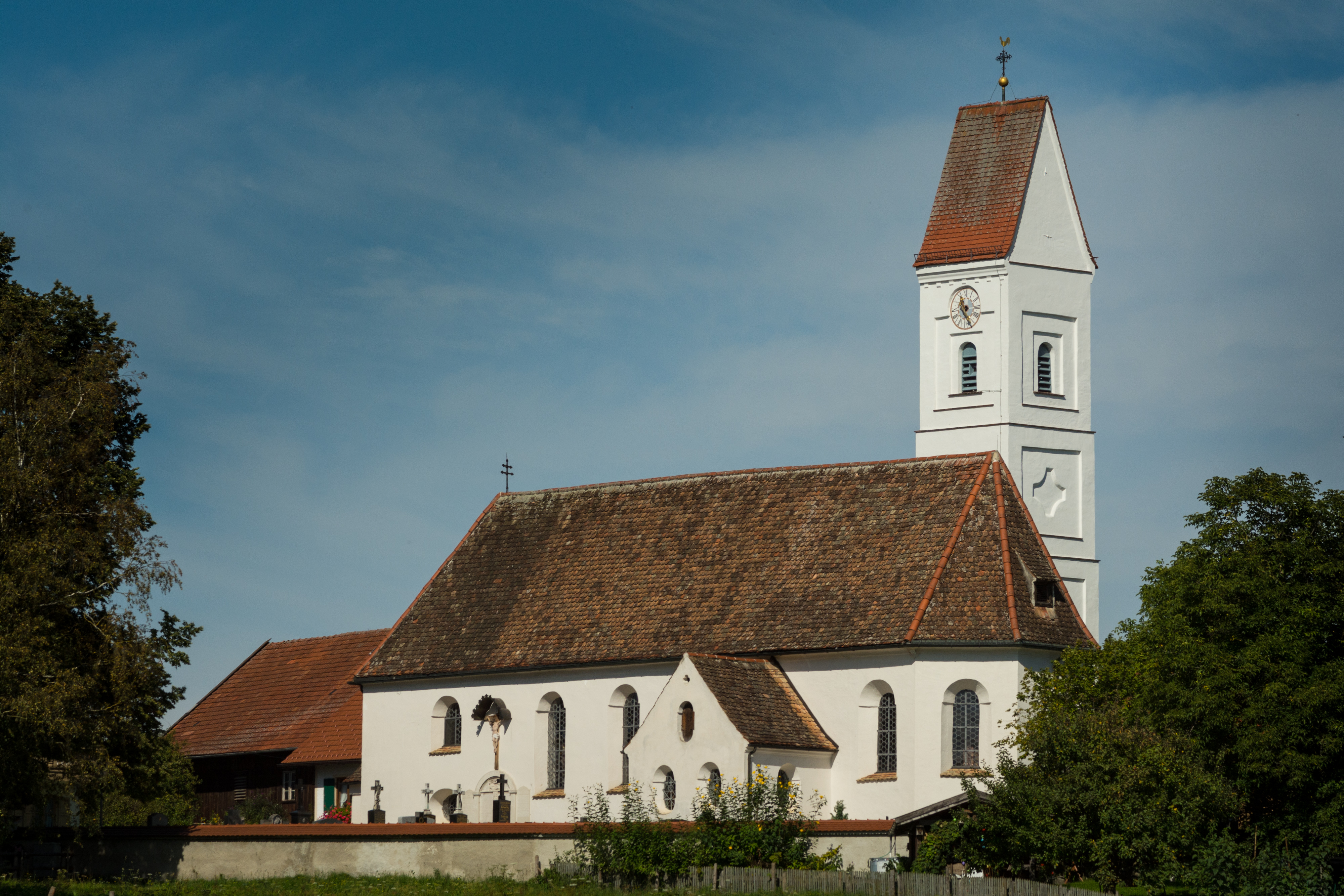 St. Johannes Evangelist (Hofheim) This is a photograph of an architectural monument.